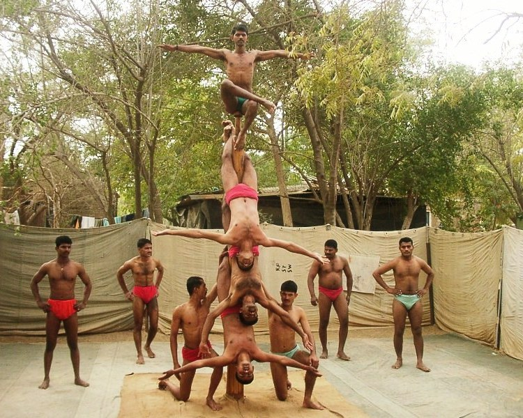 Malkhamb team of a Bombay Sappers unit. It is a gymnastic sport of Indian origin.